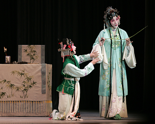 Kunqu performance at the Peking University